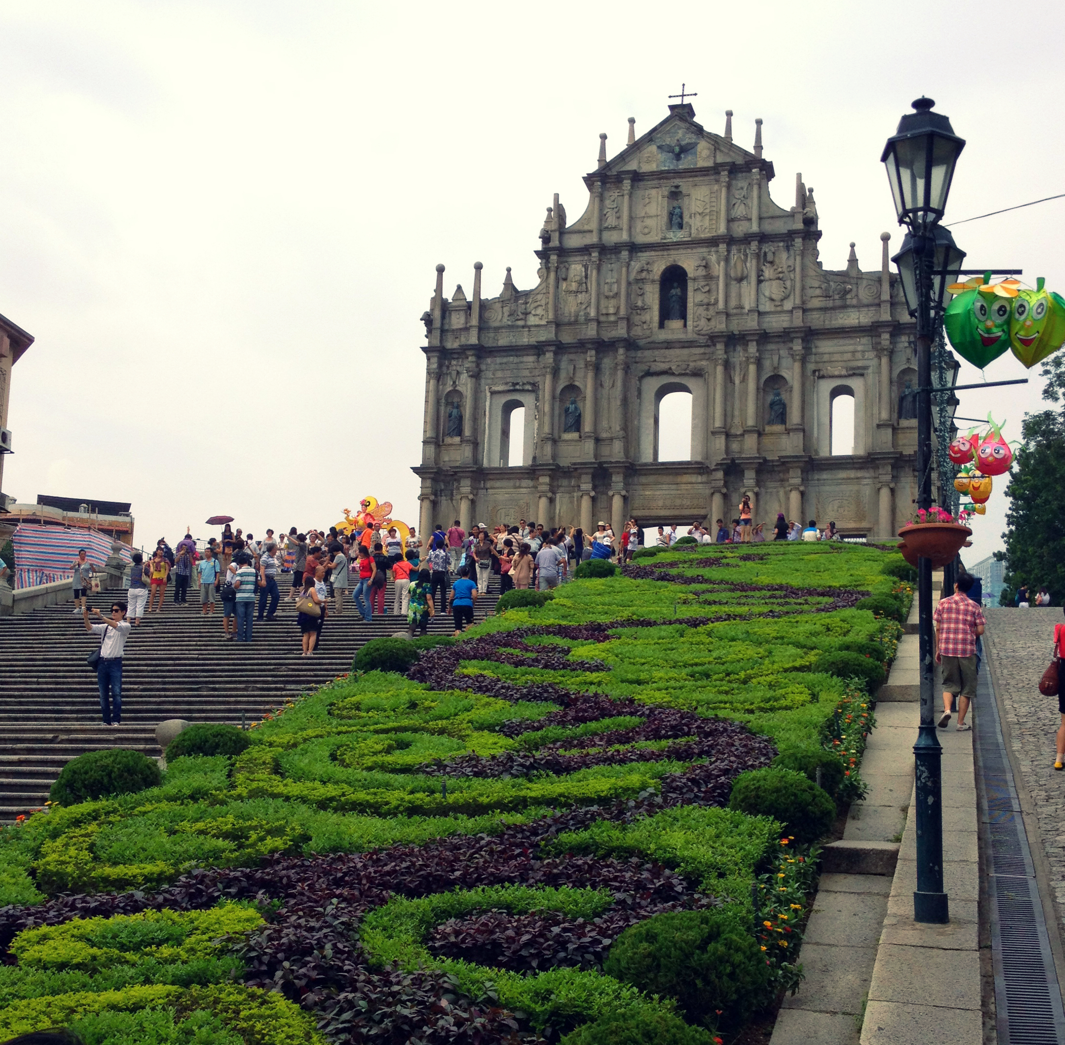 Ruins Of St Paul's Cathedral, Macau